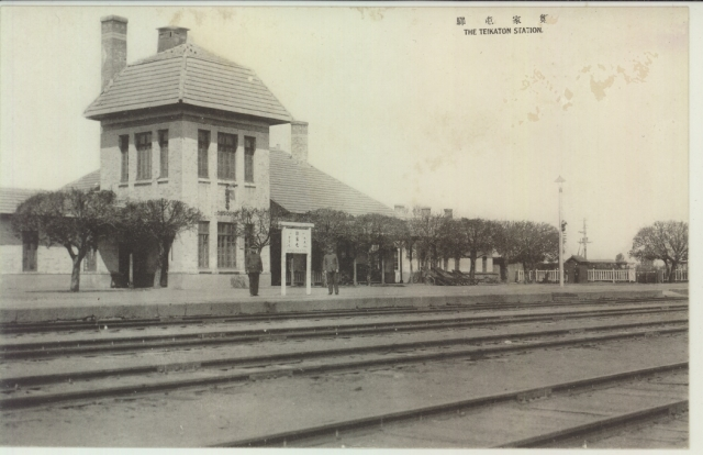 Old Zhengjiatun Railway Station